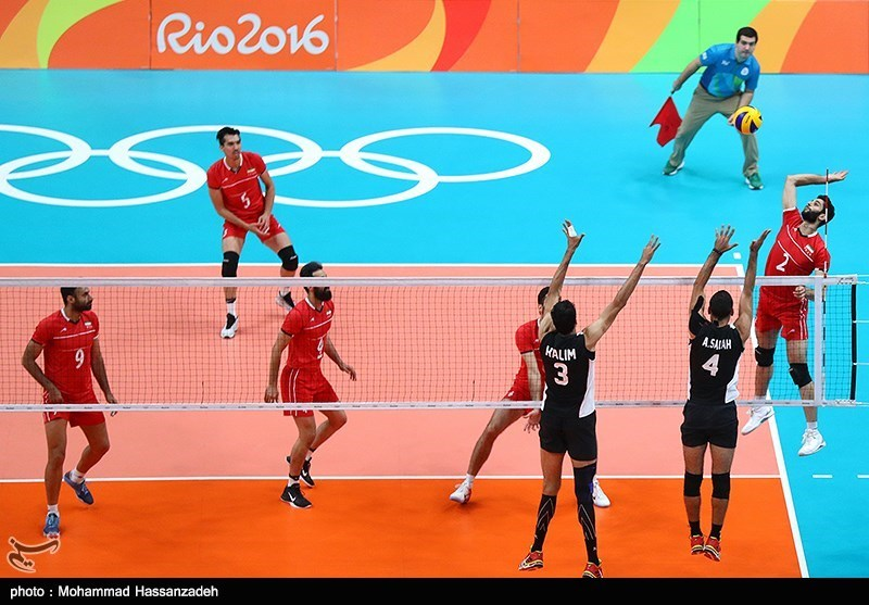 Volleyball, match between Iran and Egypt at the Olympic Games in 2016